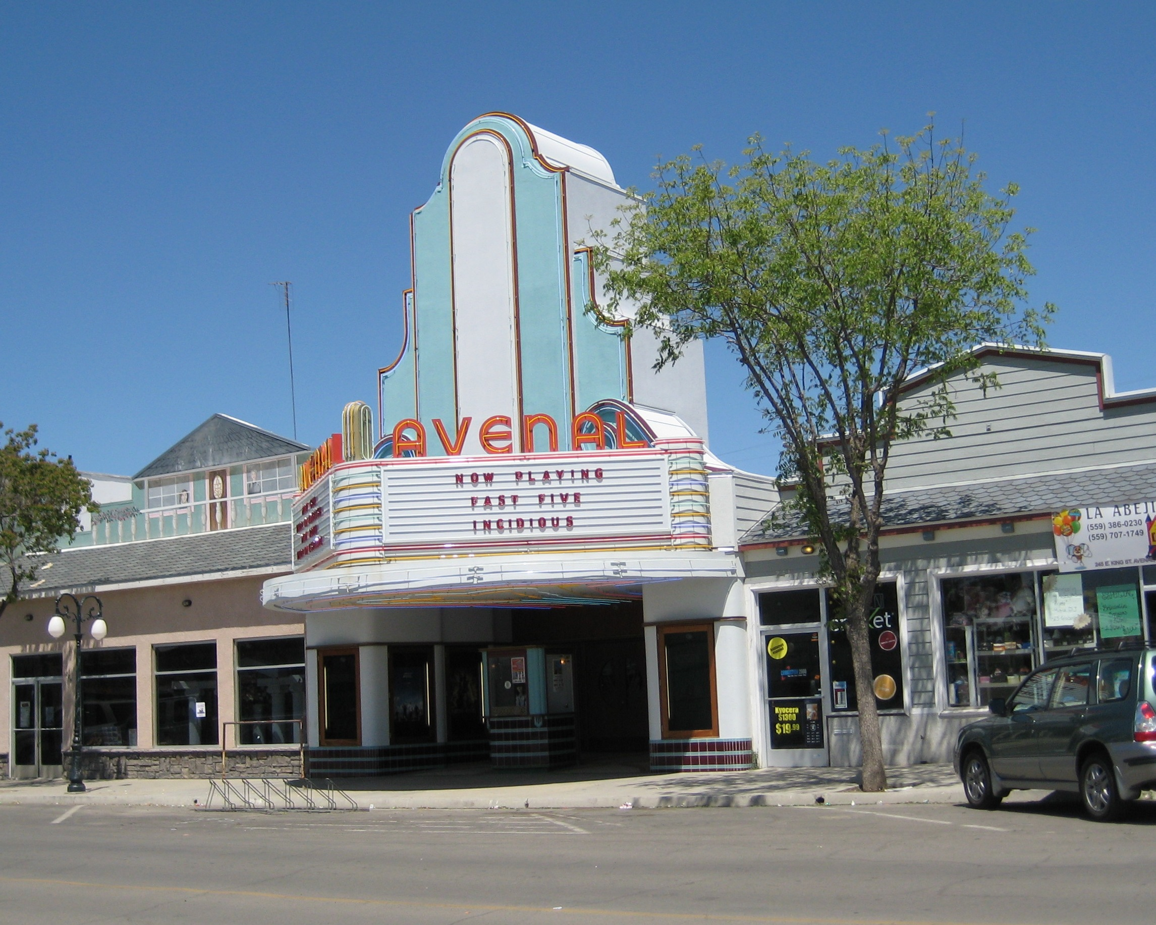 This photo is of the Avenal Theatre in Avenal, CA. The Avenal Theatre was rebuilt in 2010 after being virtually destroyed by a fire.